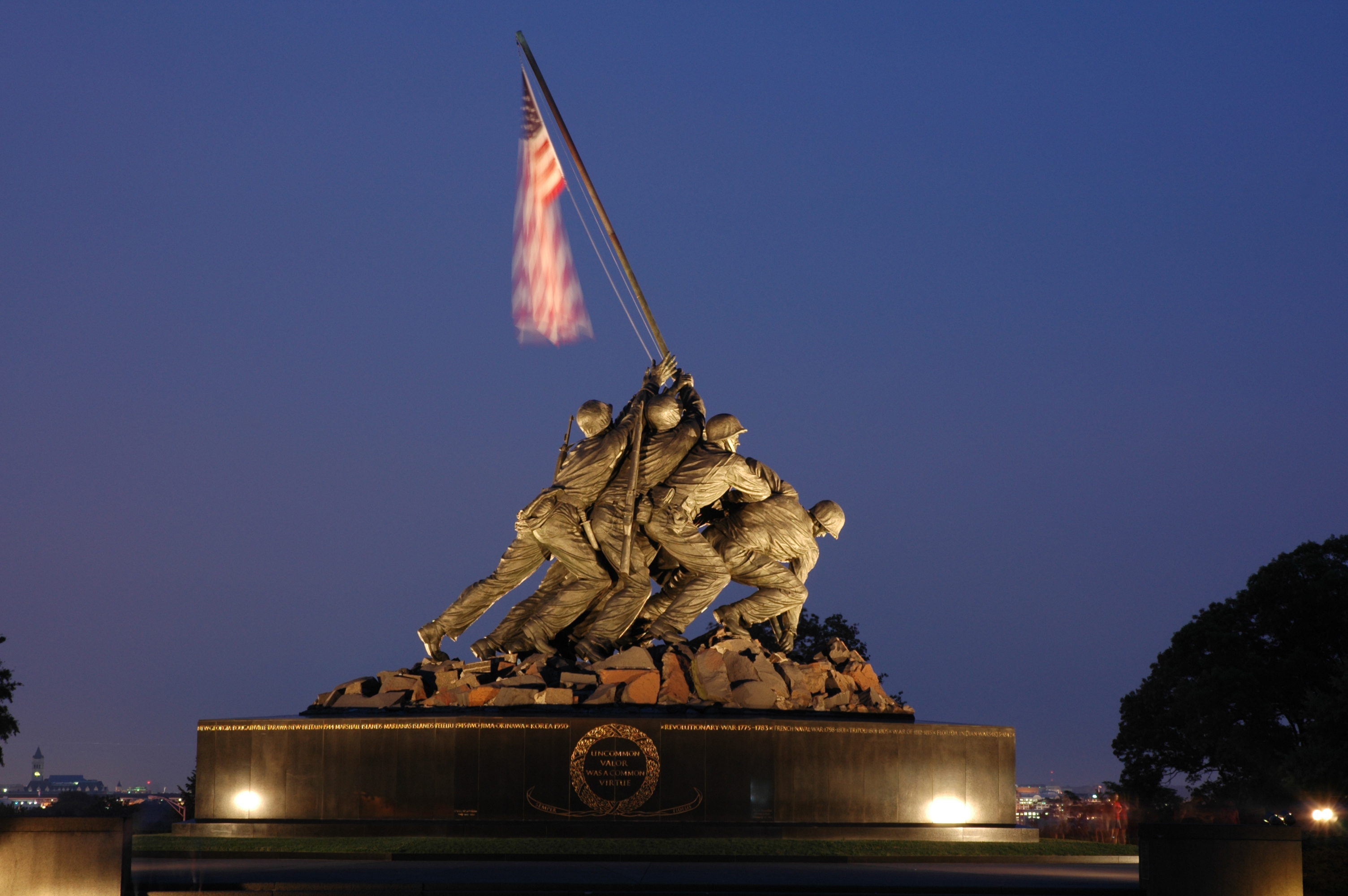 040709-N-0295M-001 Washington, D.C., (July 9, 2004) – The American flag waves over the U.S. Marine Corps War Memorial, located in Washington, D.C. Mr. Felix DeWeldon sculpted the memorial after the famous flag-raising scene at the Battle of Iwo Jima during World War II. The memorial is dedicated to all Marines who have given their lives in the defense of the United States since 1775.